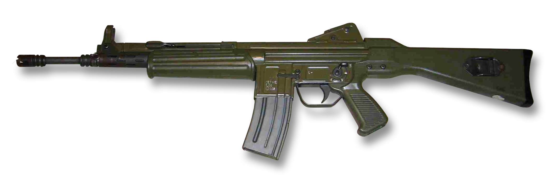 Full view of the left side of the CETME Model L assault rifle, in 5.56 x 45 (.223) caliber (the serial number has been deleted from the photograph using an image editor)